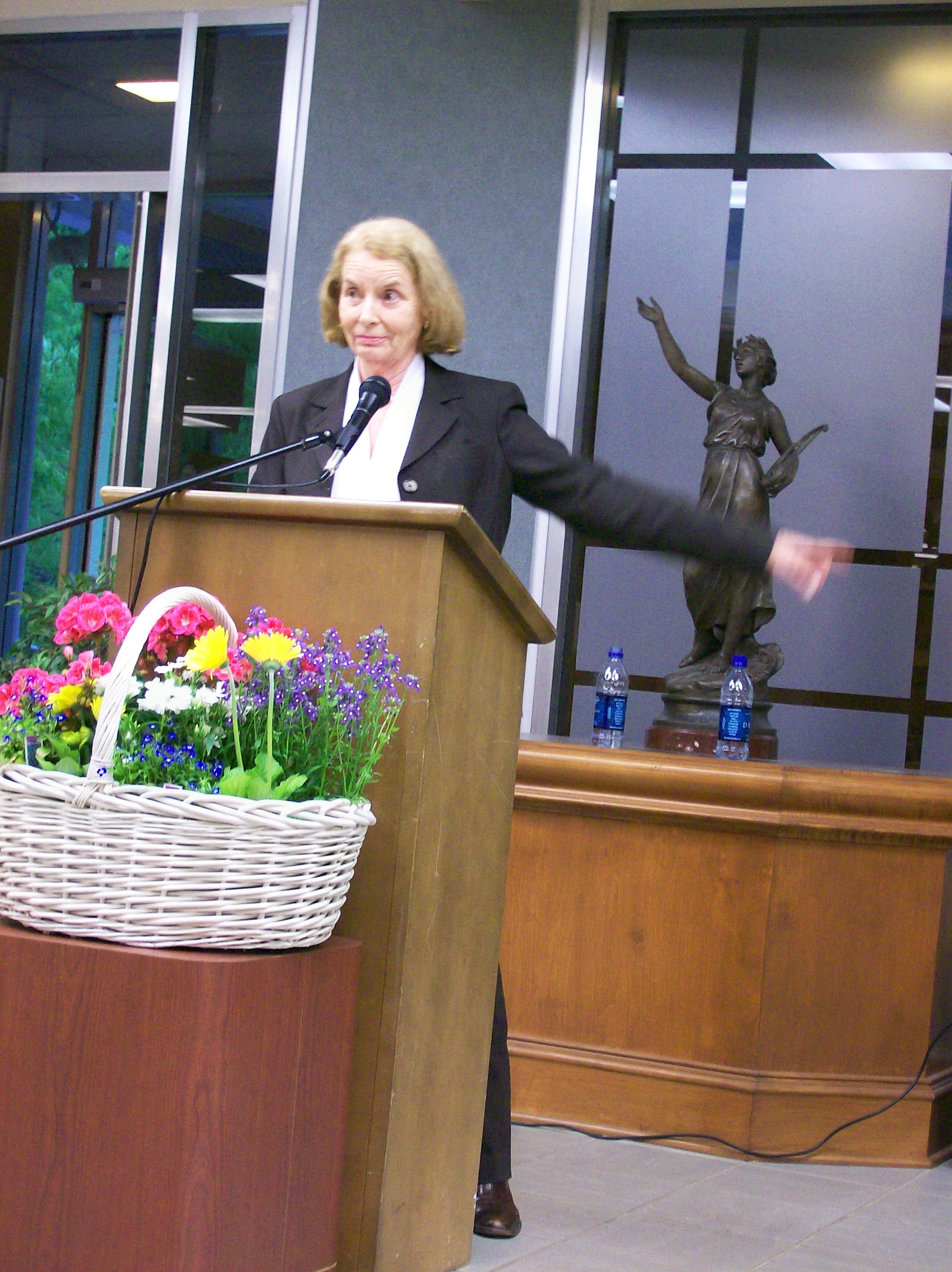 National Book Award Winner Ellen Gilchrist reads at Carmichael Library during the Montevallo Literary Festival.